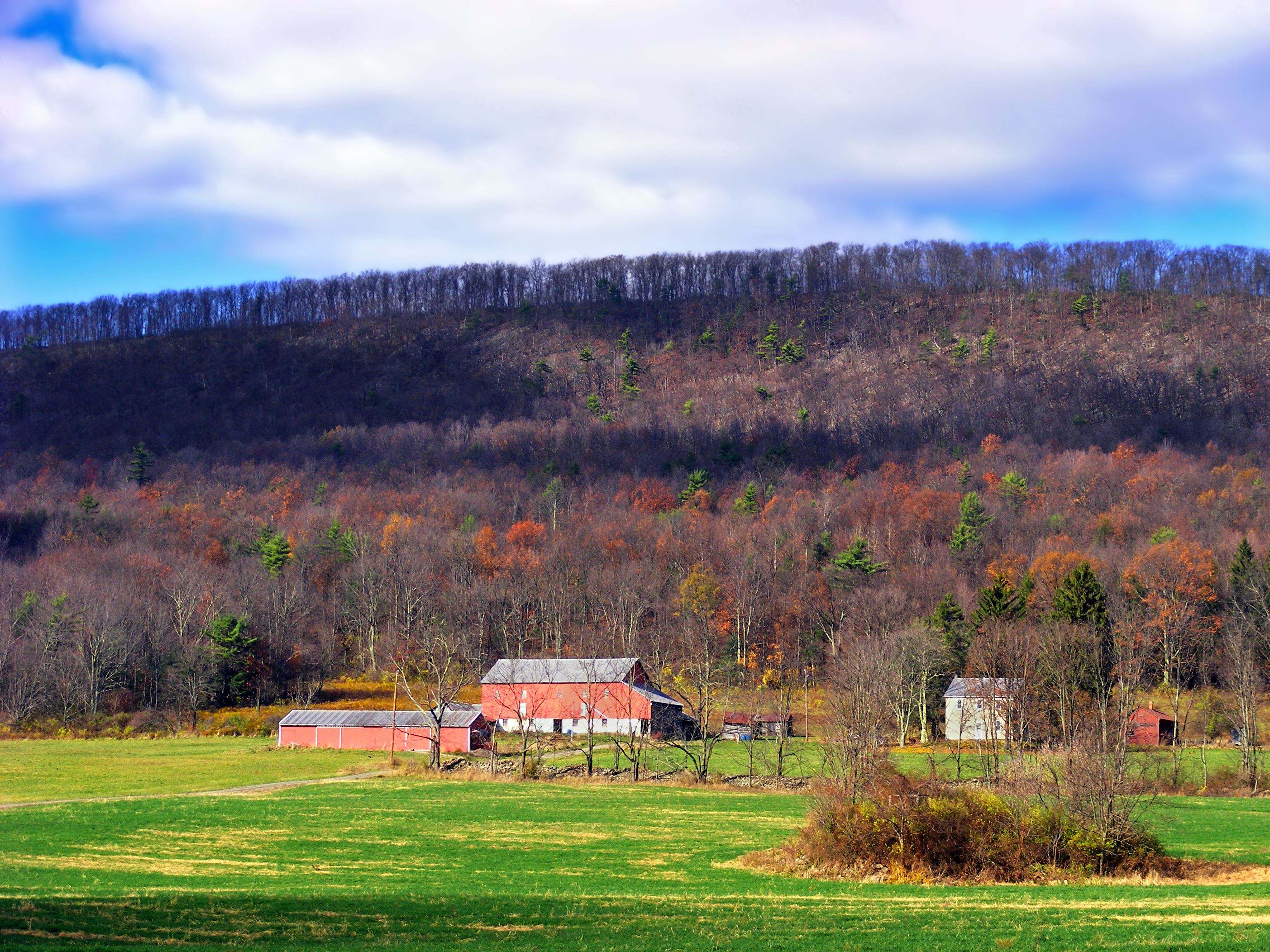 Farmstead, Miles Township, Centre County.